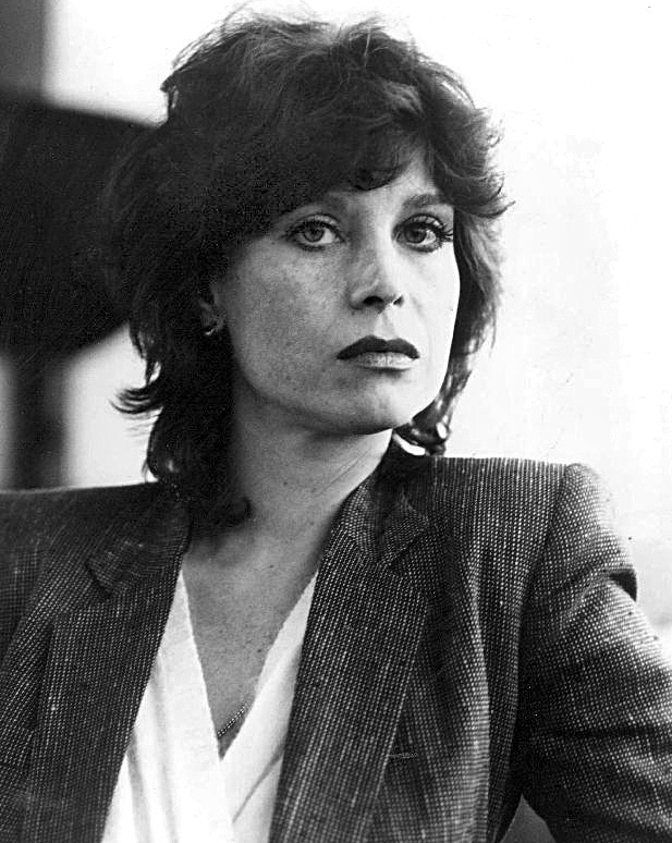 Publicity photo of Lana Wood.